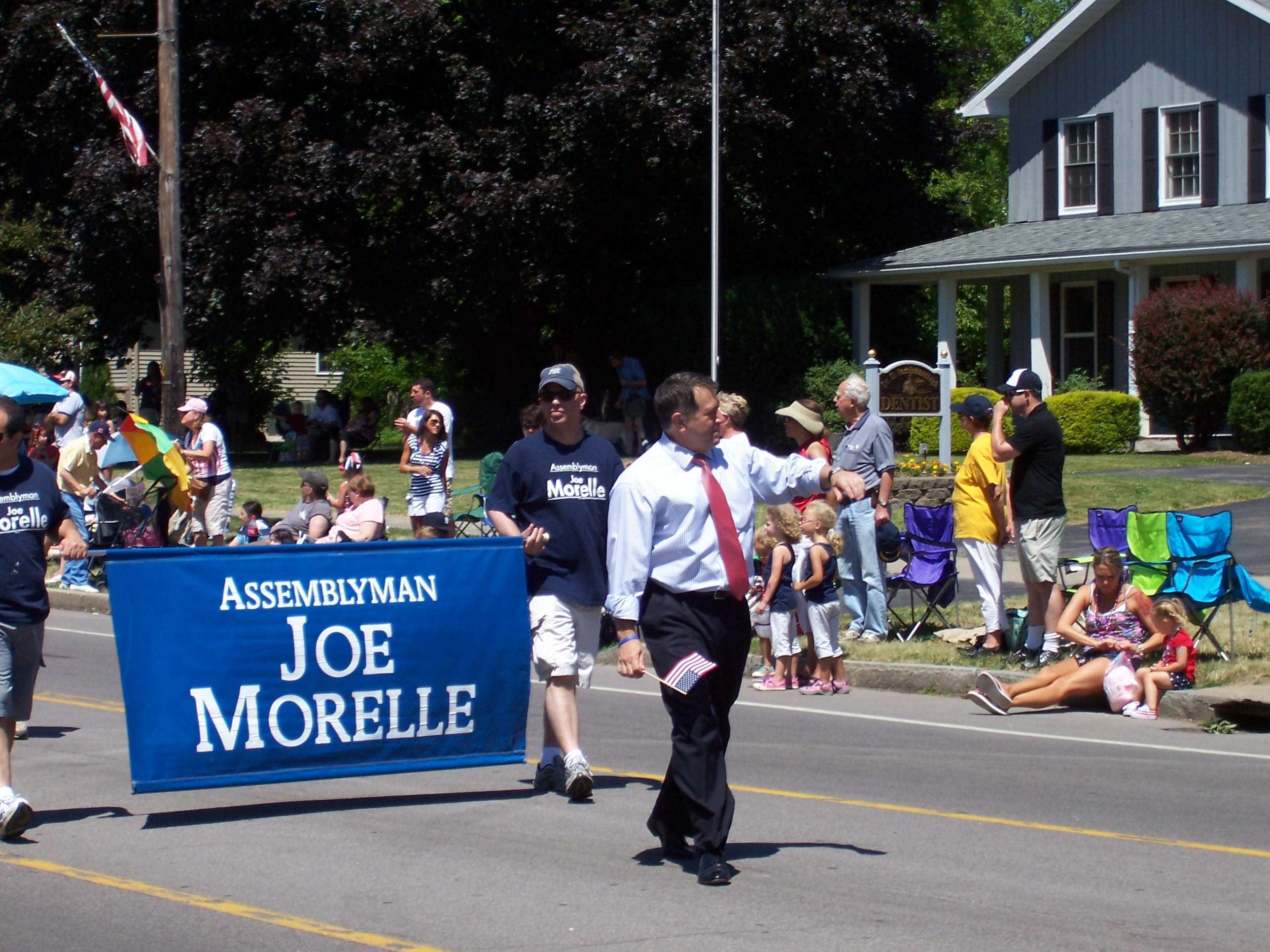 Assemblyman Joseph Morelle marching in the 2011 Irondequoit, New York Independence Day parade